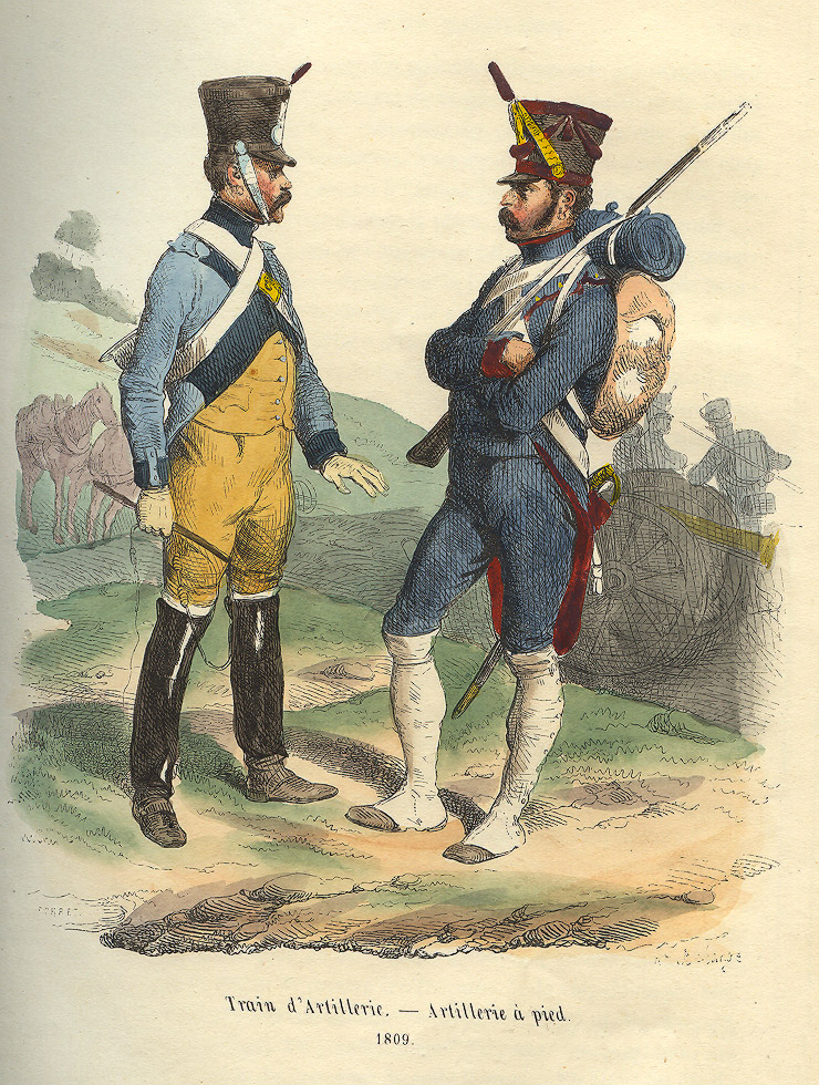 Soldier from the artillery train and foot artillerist from the Grande Armée. From book of P.-M. Laurent de L`Ardeche «Histoire de Napoleon», 1843